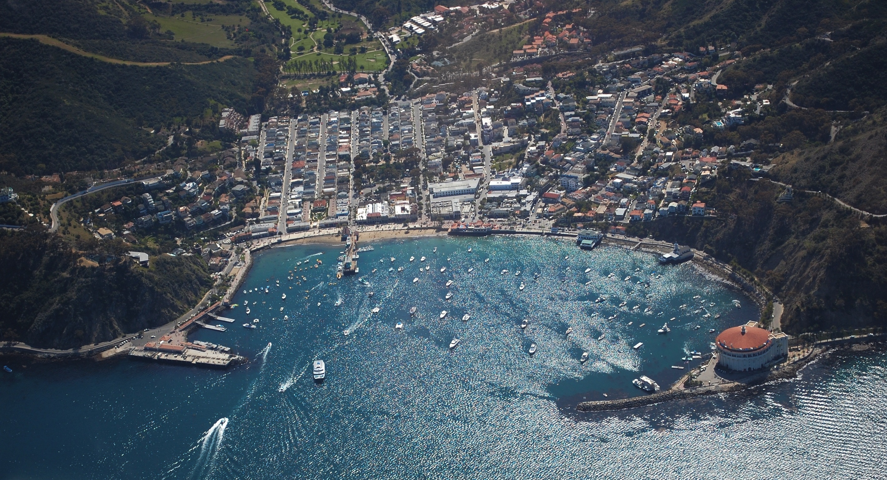 Avalon, CA